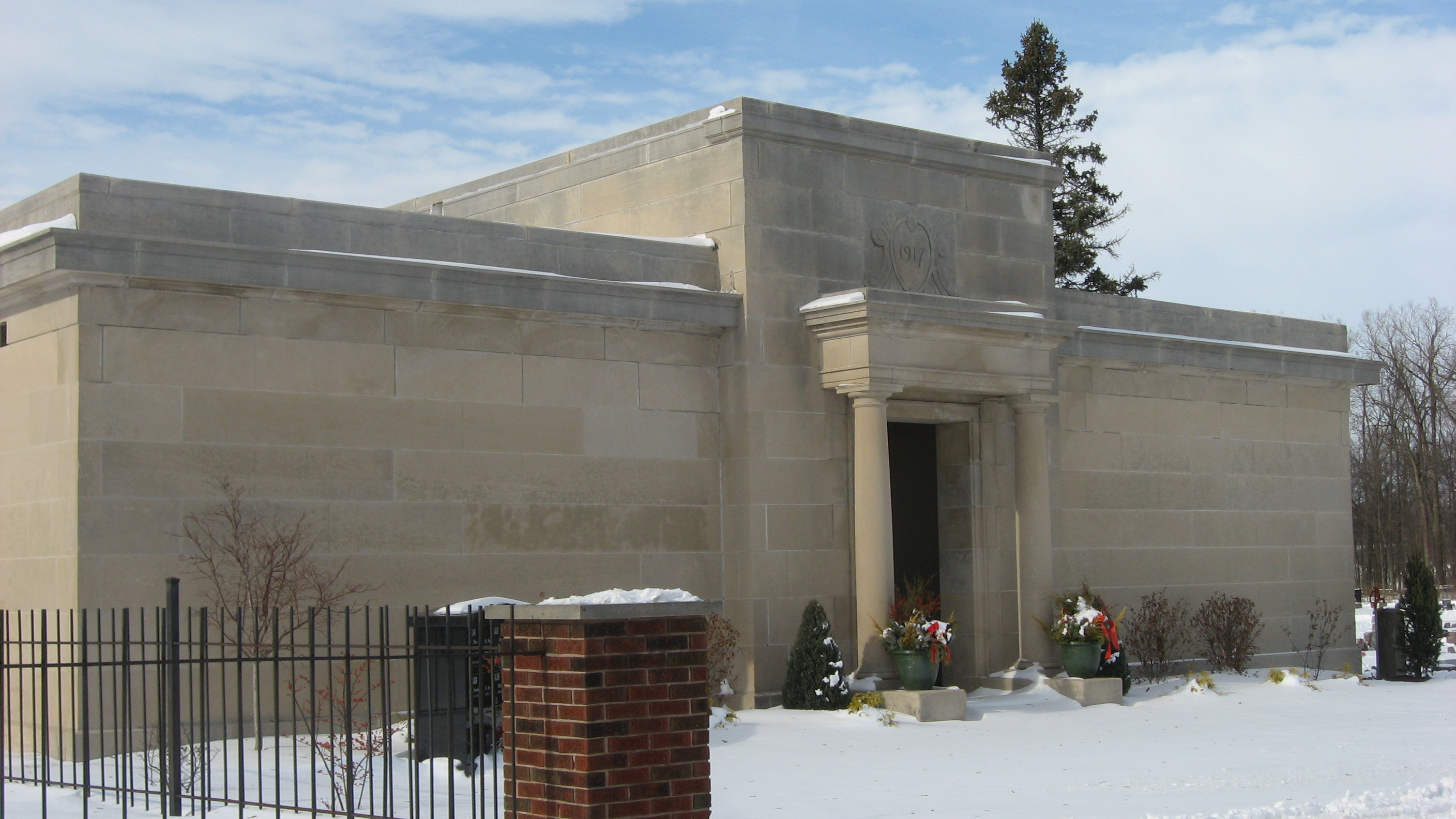 Front of the Auburn Community Mausoleum, located at 1431 Center Street in Auburn, Indiana, United States. Built in 1917, it is listed on the National Register of Historic Places.